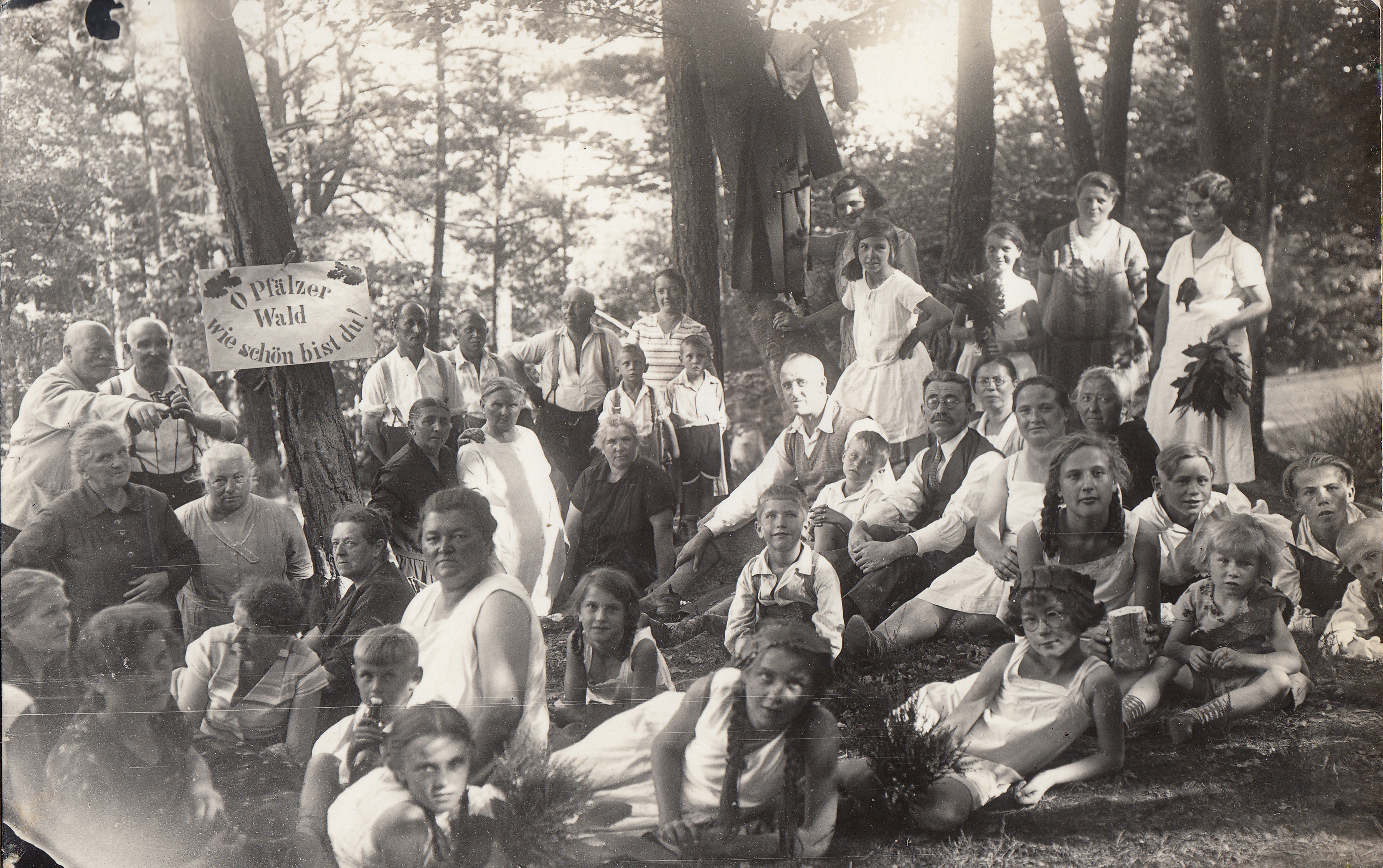 Hiking in the Palatinate Forest 1933.